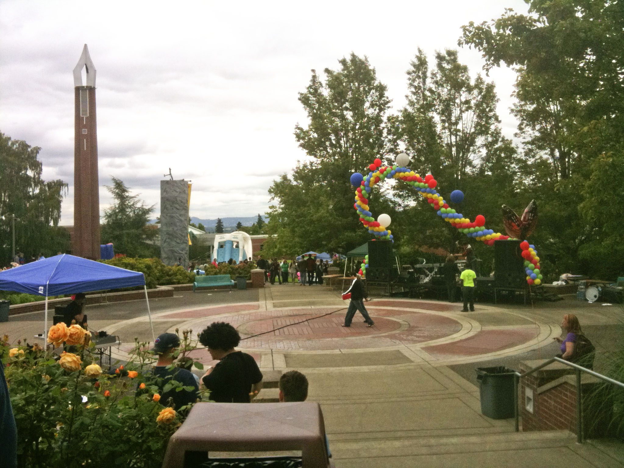 Snapshot of the annual Spring Thing end of the academic year celebrations at Clark College in Vancouver, Washington.